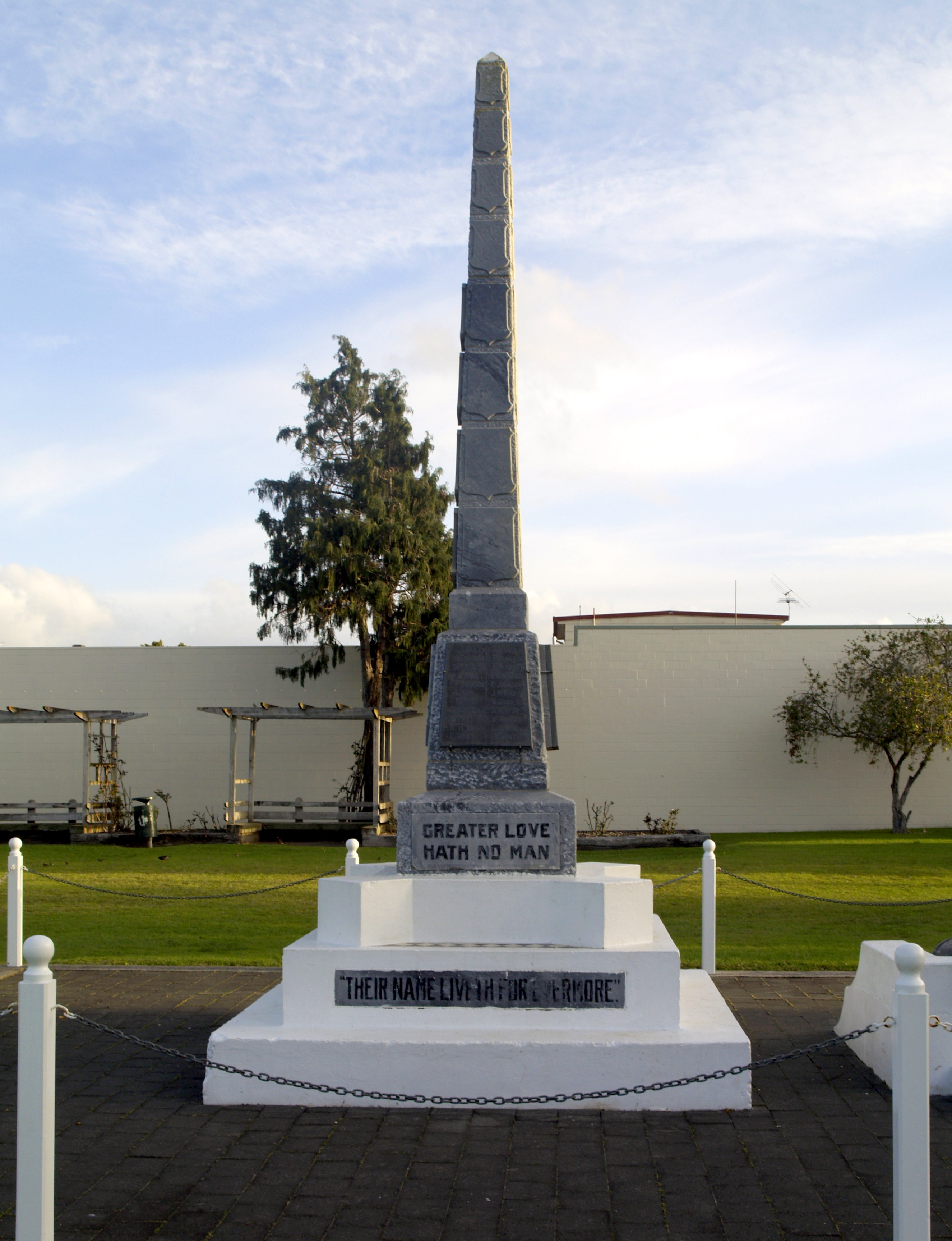 War Memorial obelisk in Whitianga, New Zealand.